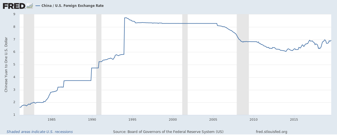 Foreign exchange rate: number of renminbi (yuan, CNY) for each dollar (USD), since 1981. Higher values mean a weaker yuan.